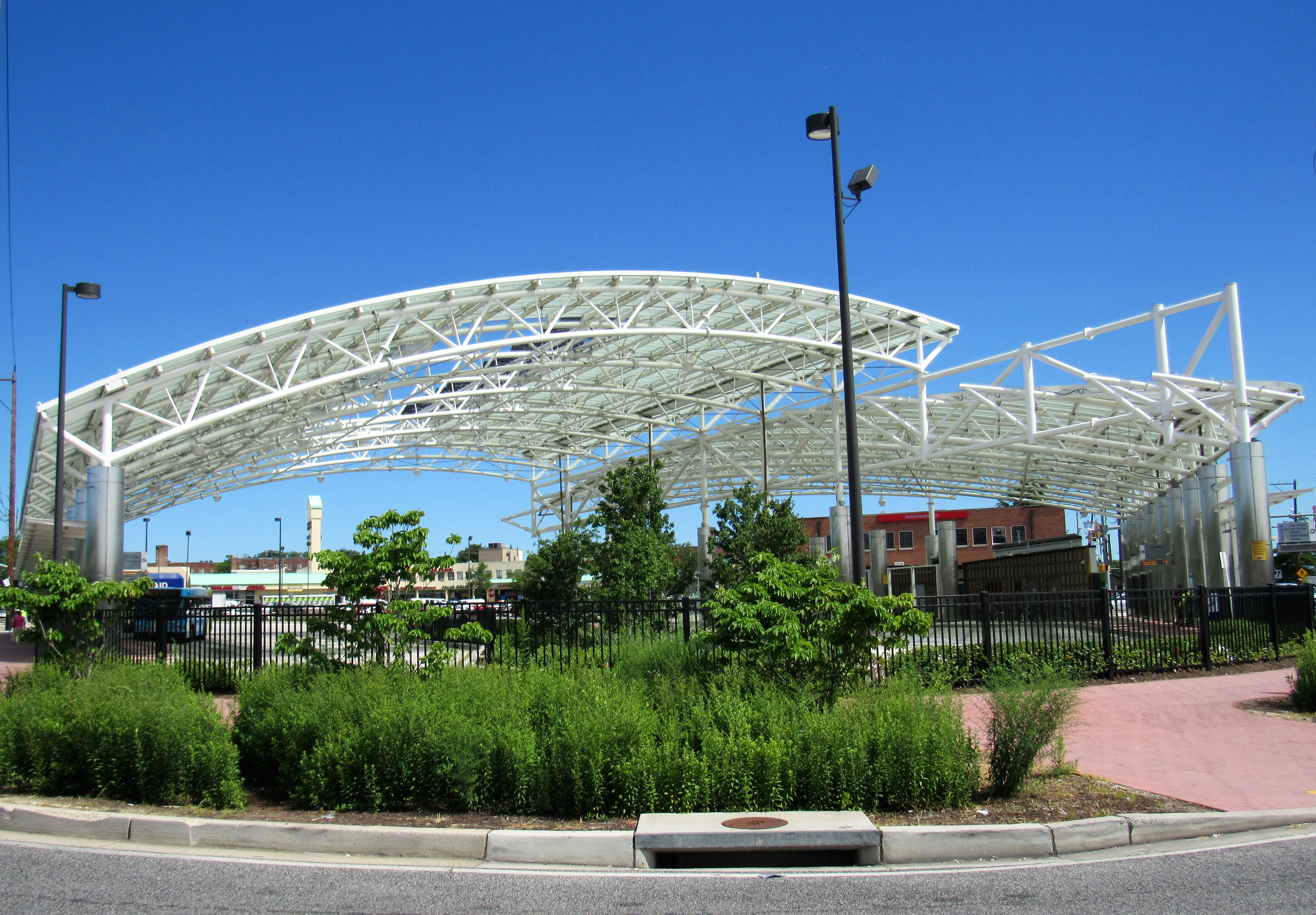 Takoma Langley Crossroads Transit Center in Langley Park, Maryland.